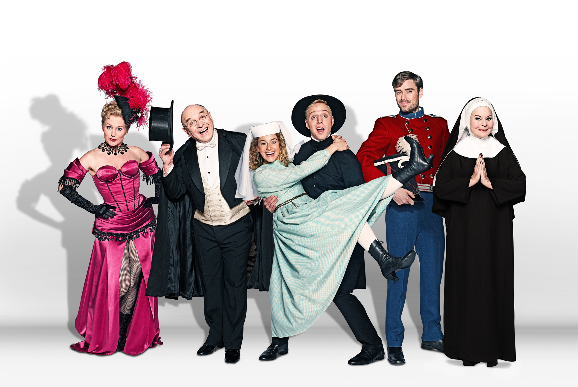 Trine Gadeberg, Asger Reher, Karin Nordly-Holst, Pelle Emil Hebsgaard, Johannes Nymark and Lone Hertz in the Copenhagen theater Folketeatret's production of the play "Frøken Nitouche" (Mam'zelle Nitouche) by Henri Meilhac and Albert Millaud.